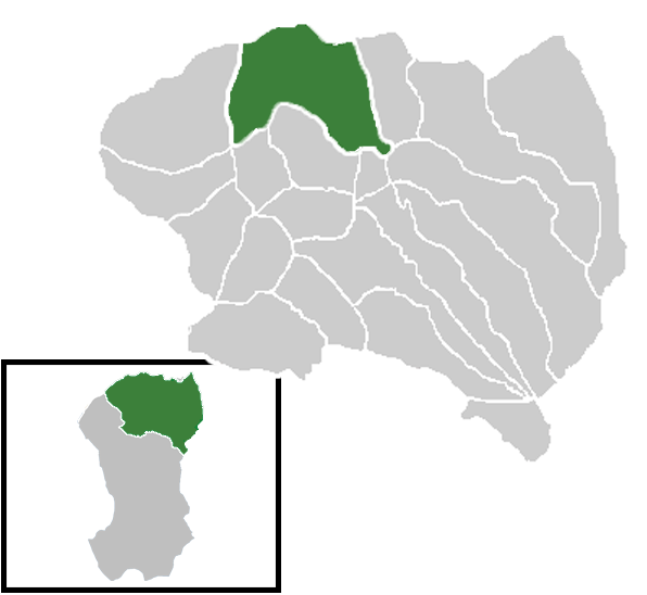 Position of Brrut in Sharr (Dragash) Municipality